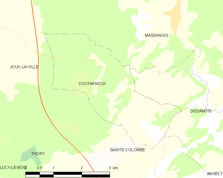 Map of French municipality Coutarnoux